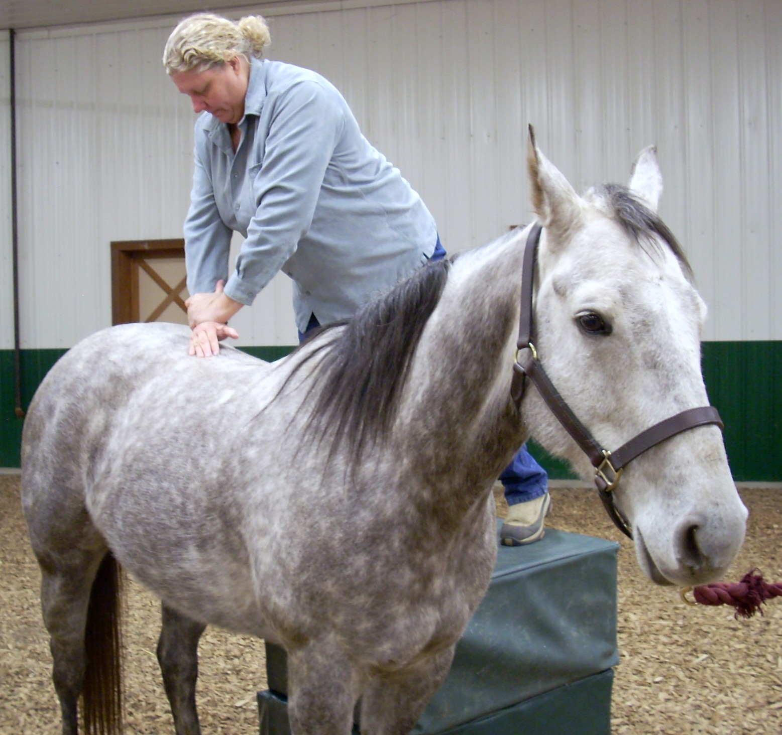 Dr. Heidi Bockhold, of Options for Animals College of Animal Chiropractic, performs a chiropractic adjustment on a horse.